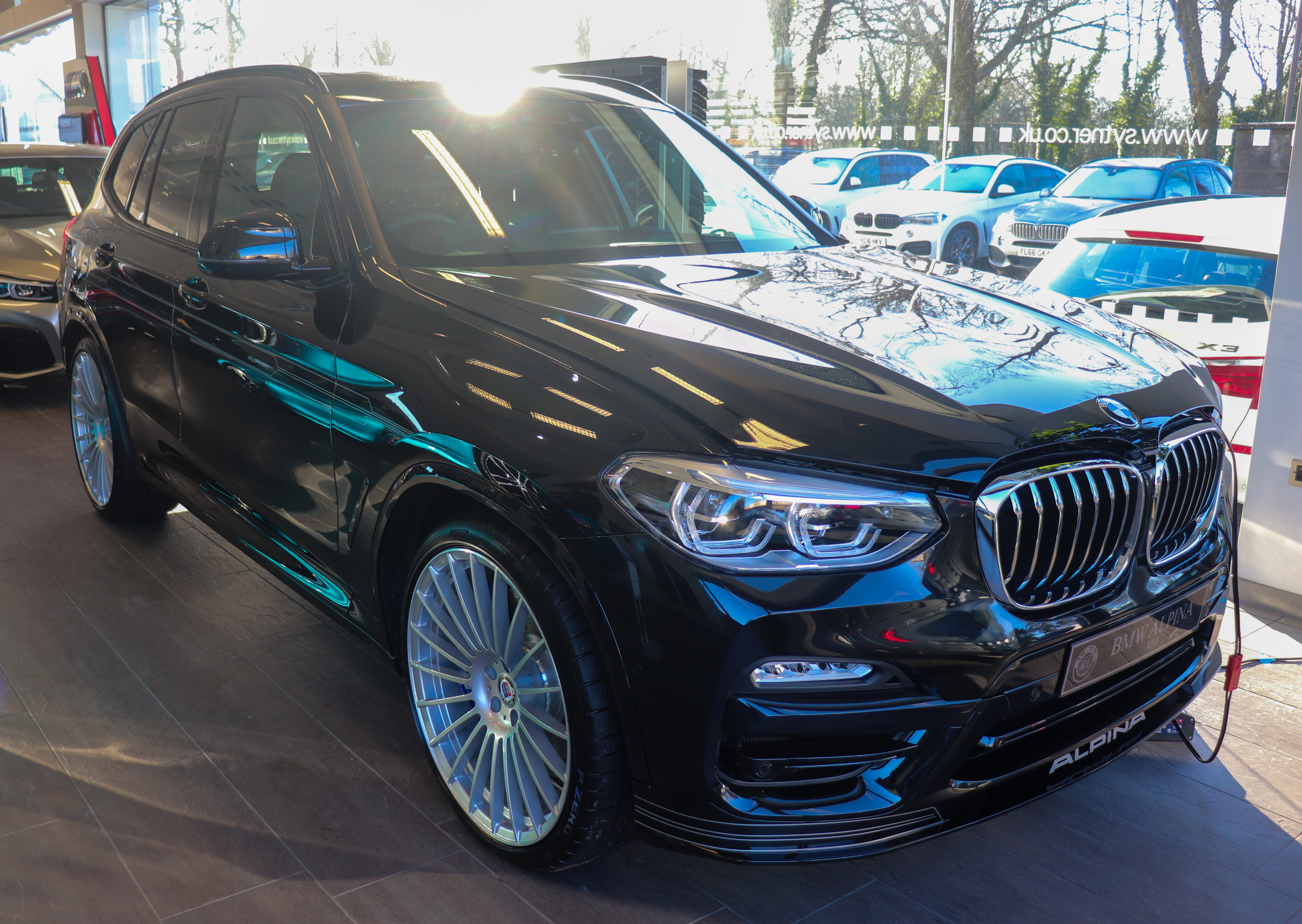 2019 BMW Alpina XD3 3.0 Front Taken in Sytner Solihull BMW, Solihull